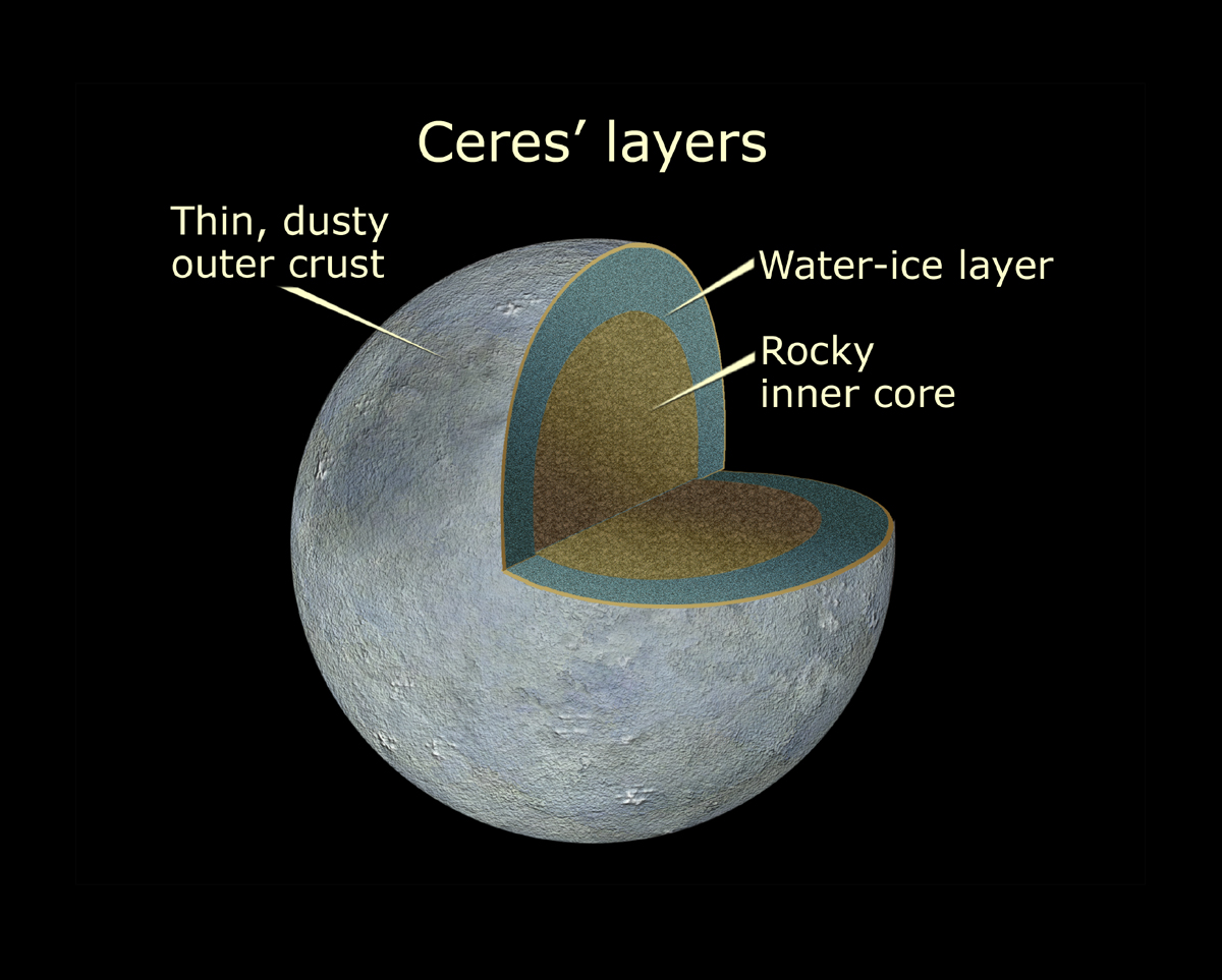 Template:Description/Ceres Cutaway